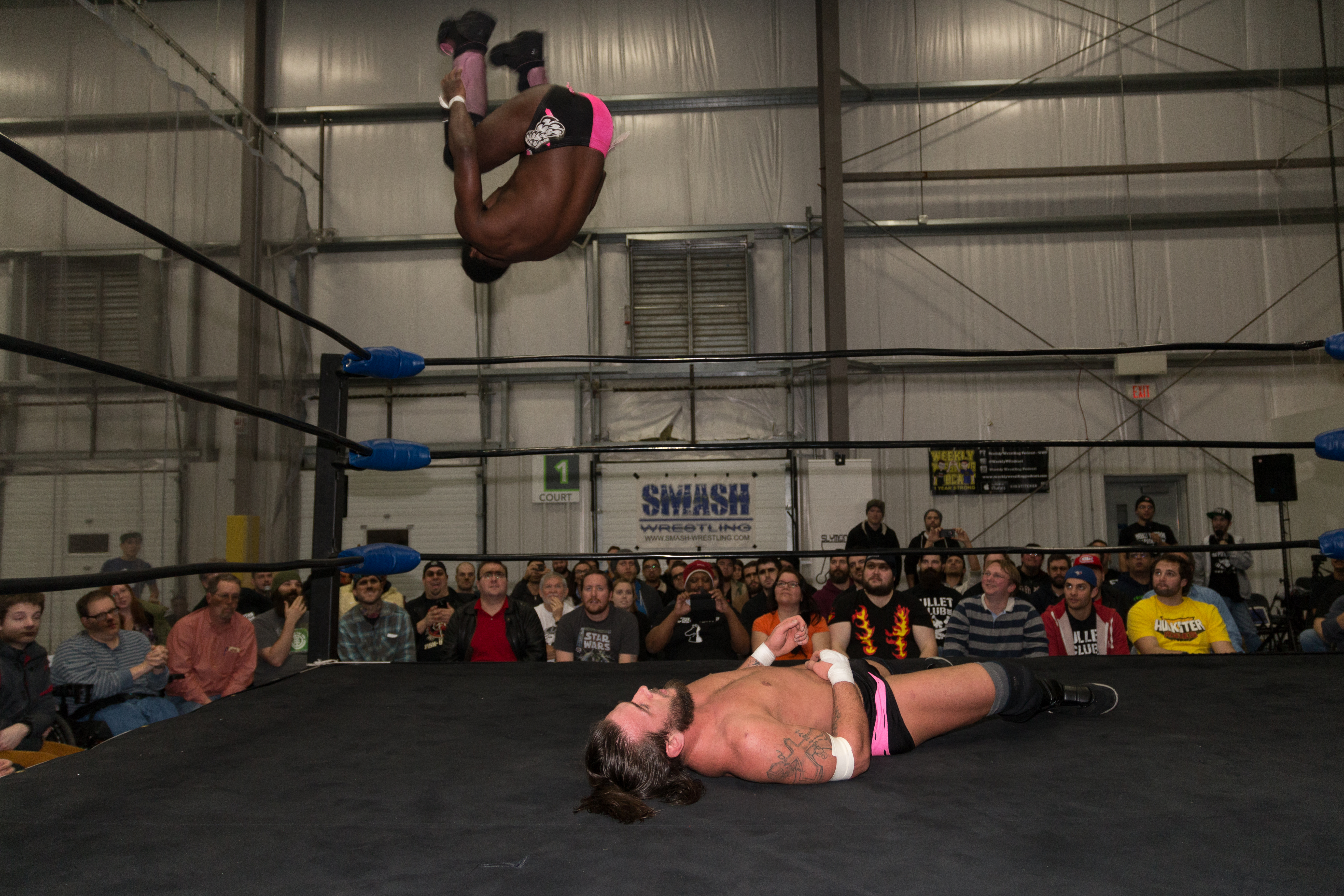 Rich Swann doing a 450 splash onto JT Dunn